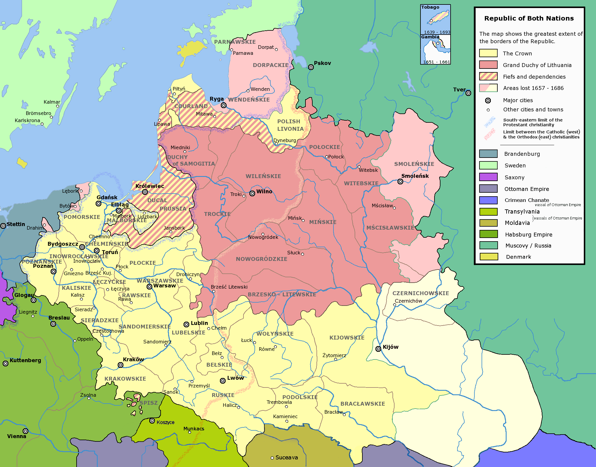 Voivodships of the Republic of Both Nations. The names of the voivodships are in Polish. In Polish the voivodships and other units of administrative division are traditionally referred to with their adjective forms, i.e. Płock Voivodship is referred to as (Województwo) Płockie (Literally Plockian voivodship), Podole Voivodship as (Województwo) Podolskie (literally Podolian Voivodship) and so on. The areas marked with light pink were lost to: Brandenburg in the treaties of Welawa and Bydgoszcz in 1657 Sweden and Brandenburg in the treaty of Oliwa in 1660 Muscovy in the Treaty of Andruszów in 1667 Muscovy in the Grzymułtowski's Peace Treaty of 1686